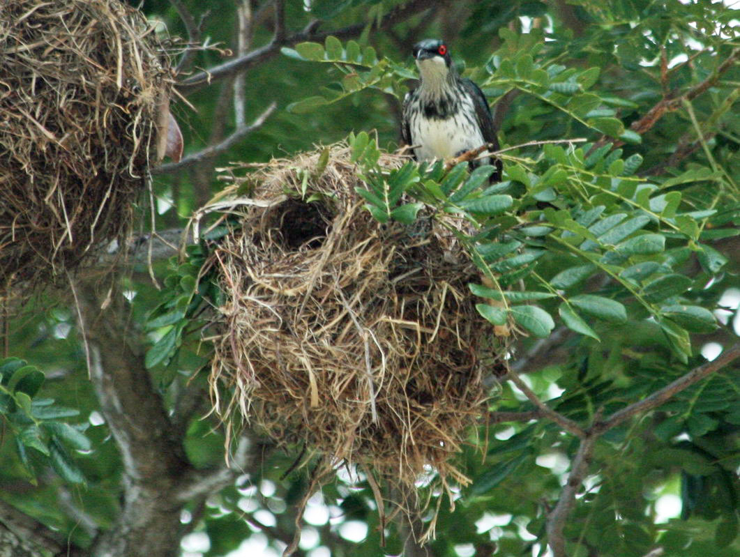 Female Metallic Starling (Aplonis metallica), with nest in foreground